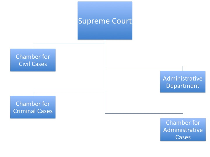 papapa